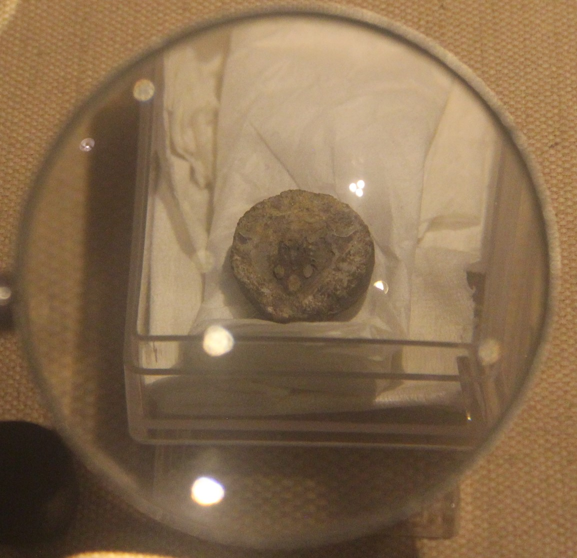 Shuyu zhejiangensis headshield (IVPP V14330.2a) on display at the Paleozoological Museum of China.